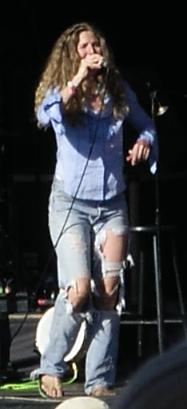 Sophie B Hawkins at GuilFest in Stoke Park